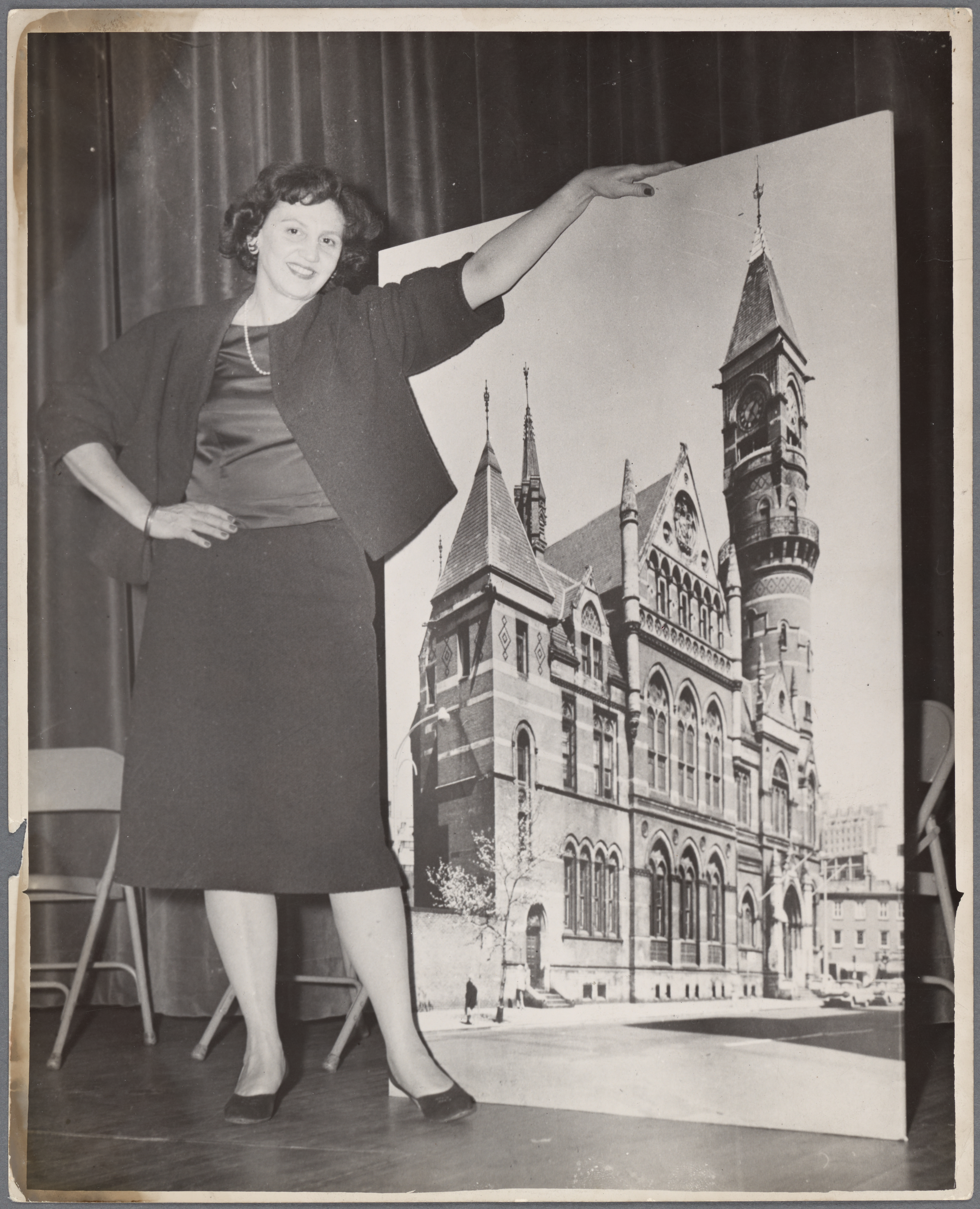 Scanned photo of Margot Gayle with blown-up photograph of the Jefferson Market Courthouse building that she was working to preserve and convert to a library. Photo c. late 1960s.